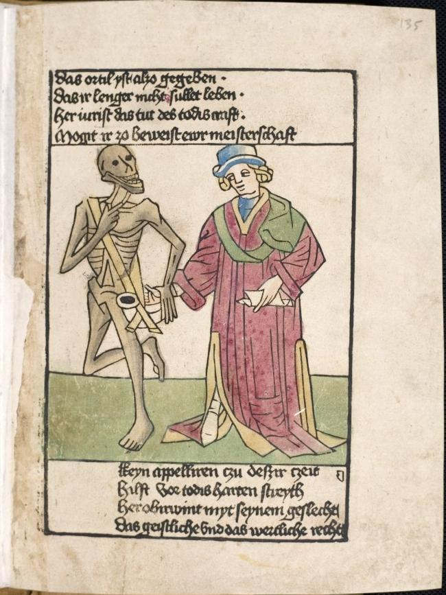 Totentanz (Danse Macabre) in blockbook format: oldest surviving book illustrations of the genre.